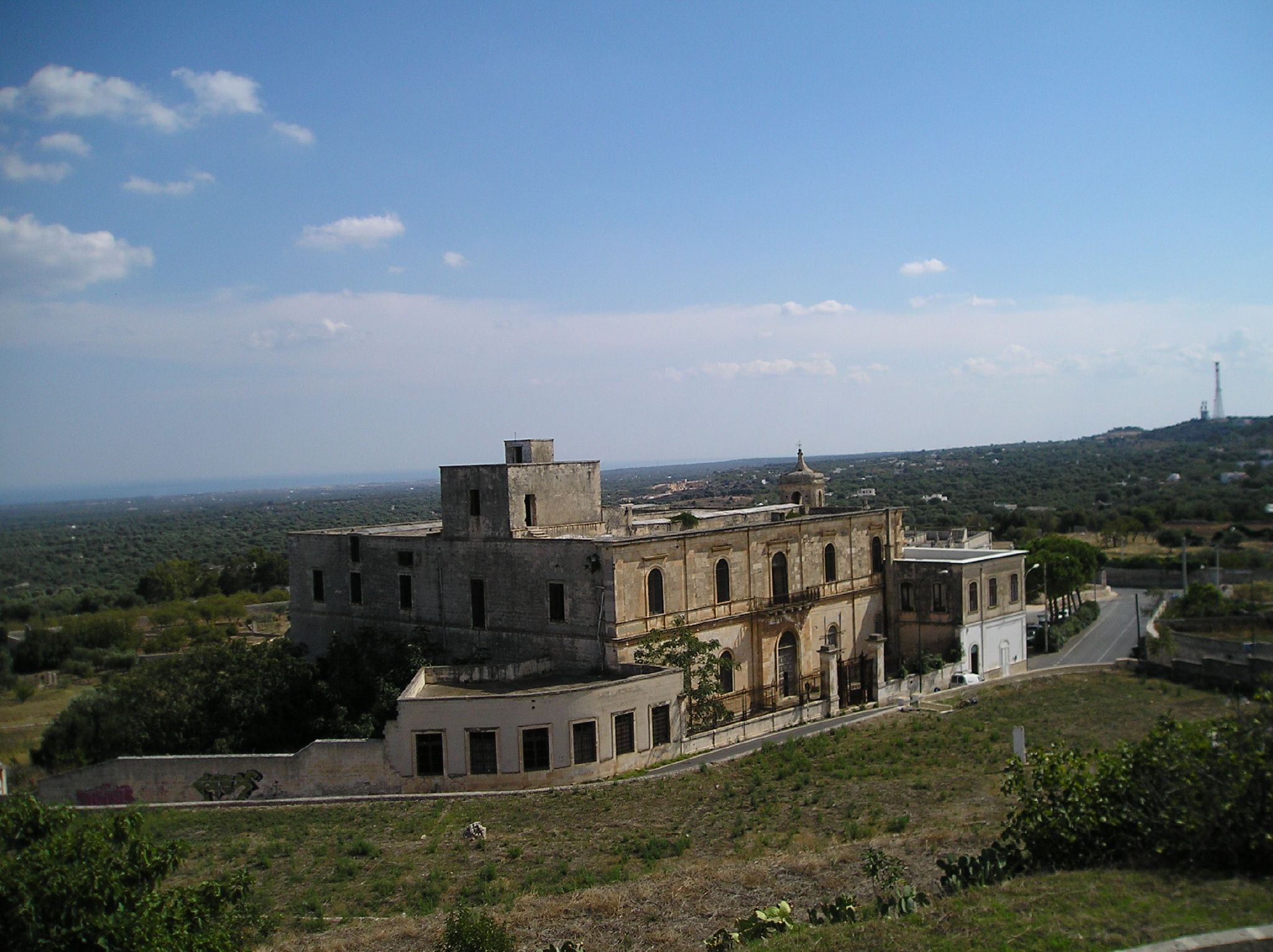 A monastery in the Italian wine region of Ostuni in the Pulgia region, with the sea in the distance.